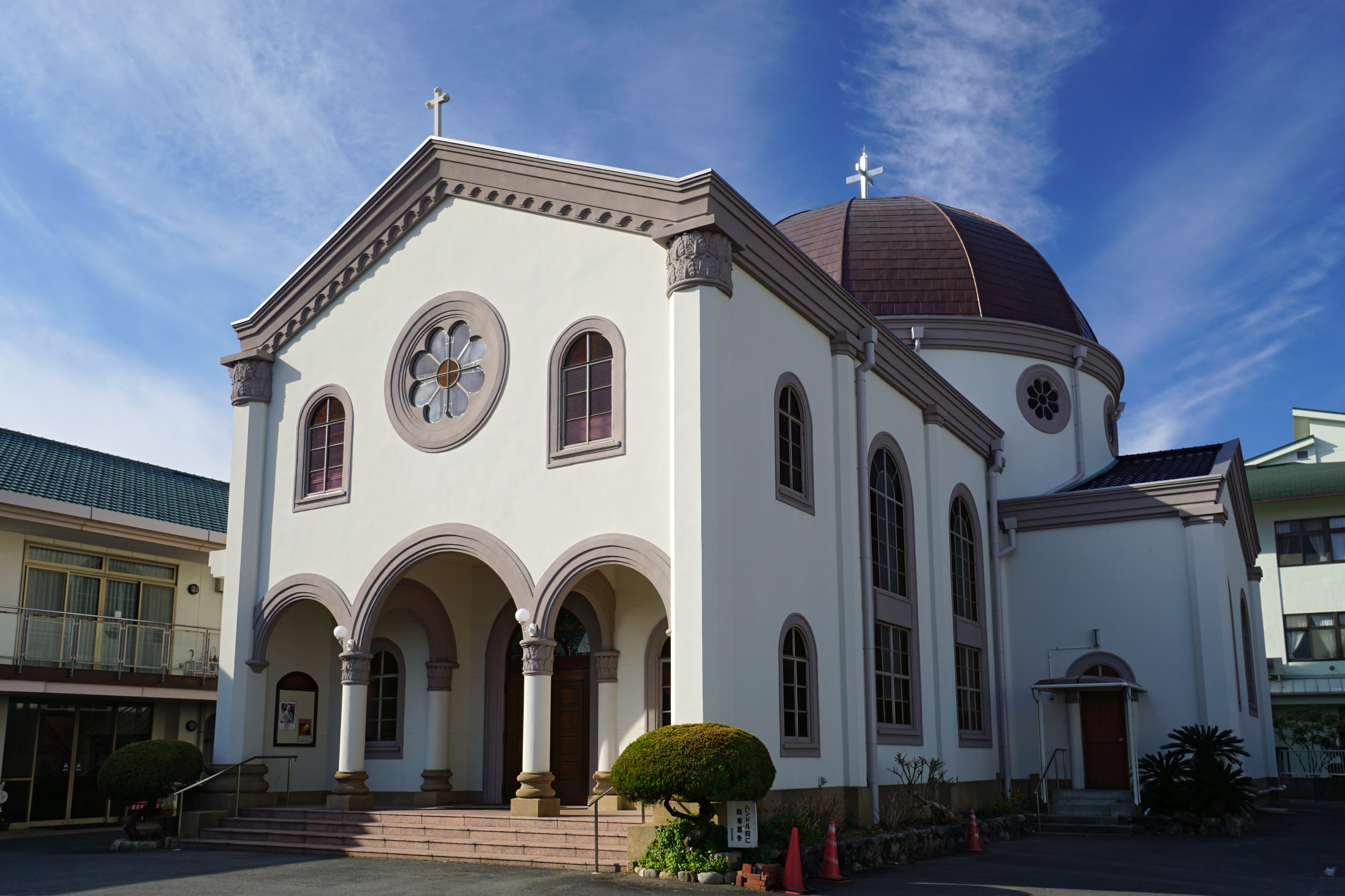 Takatsuki Catholic Church in Takatsuki, Osaka prefecture, Japan.